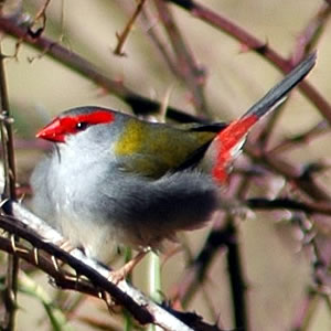 Bird, Red-browed Firetail, Neochmia temporalis